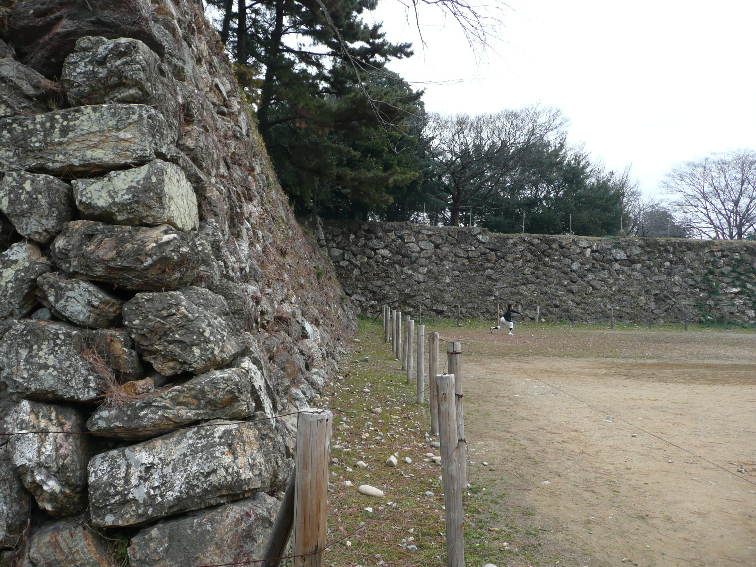 加納城の石垣